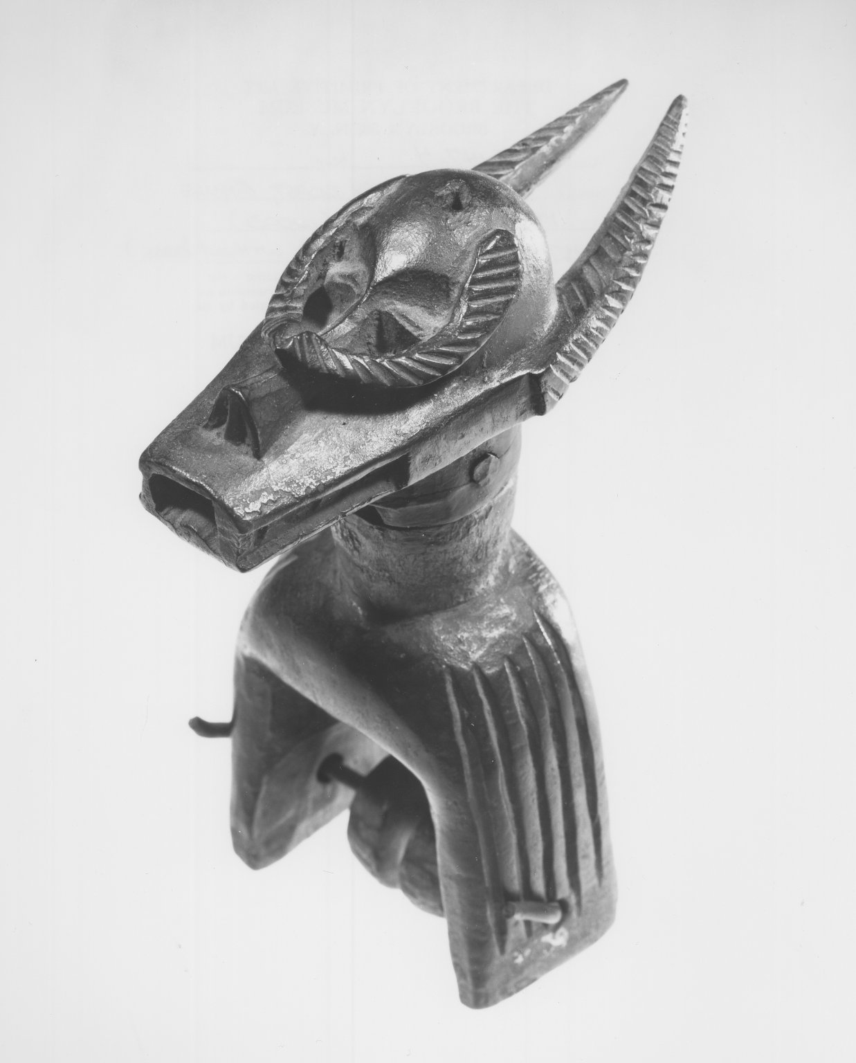 Heddle Pulley with Bovine Head (Guli)